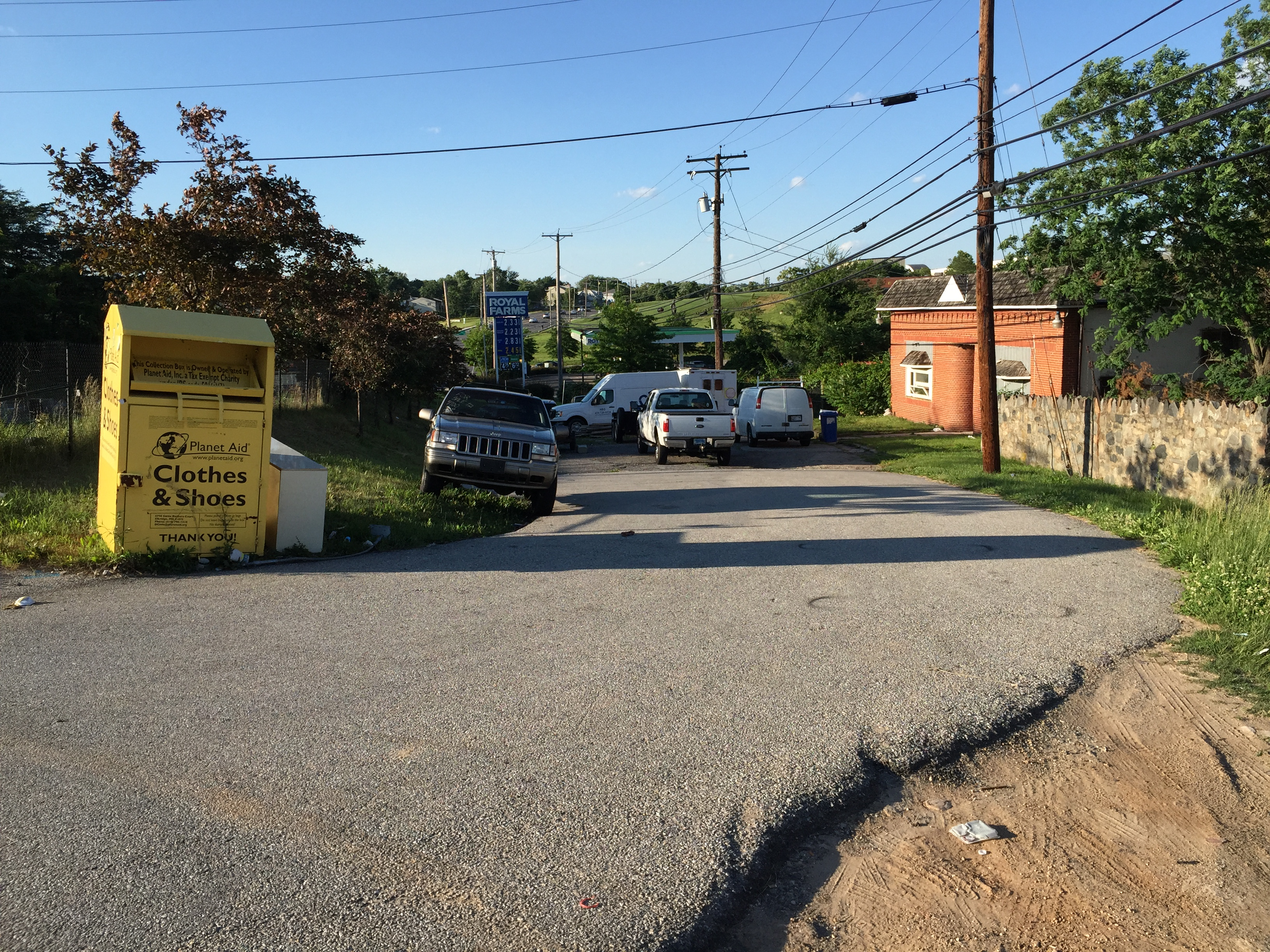 View north along Maryland State Route 993 at U.S. Route 1 Alternate (Washington Boulevard) in Arbutus, Baltimore County, Maryland